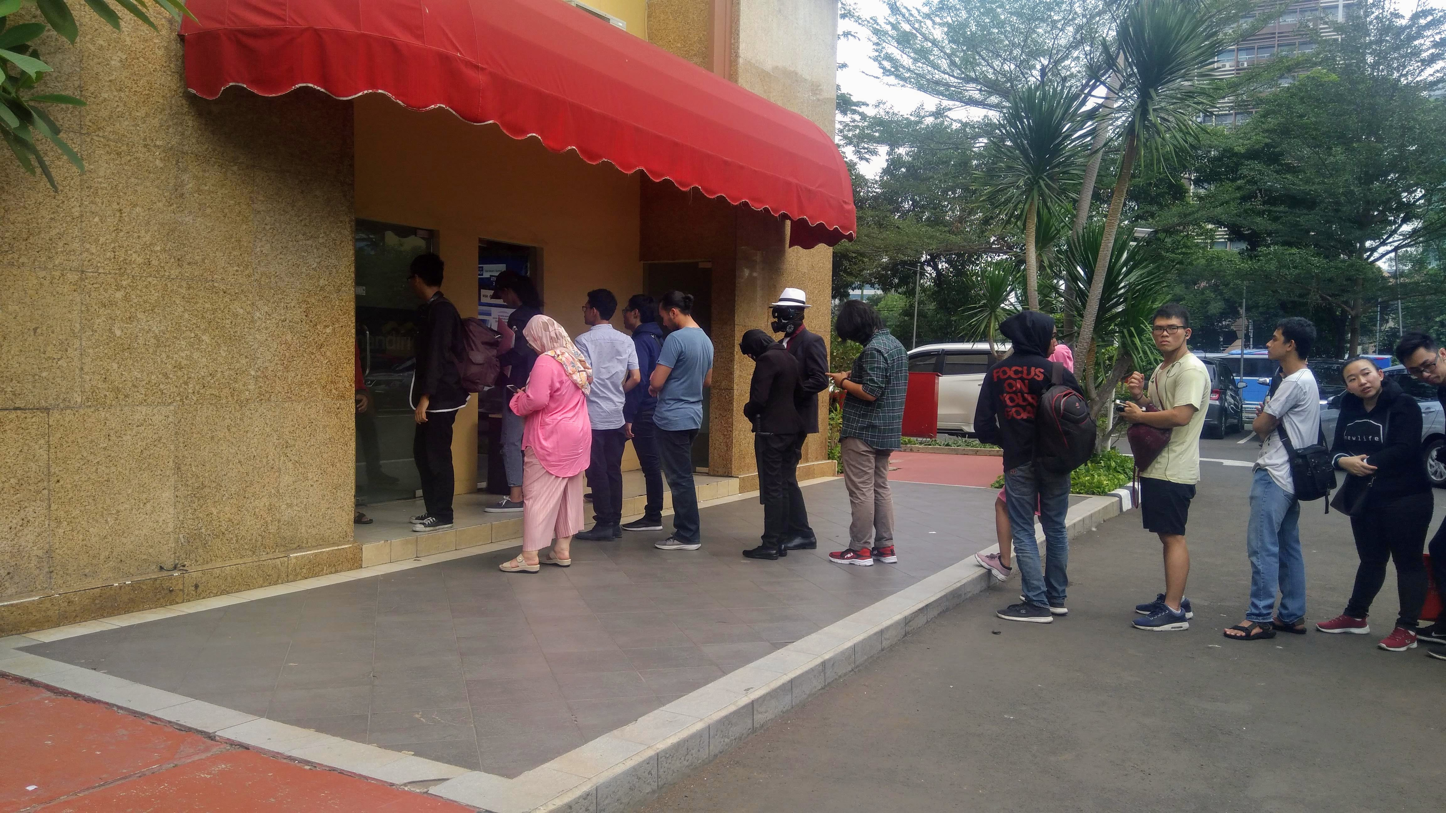 ATM queue at Comic Frontier 13